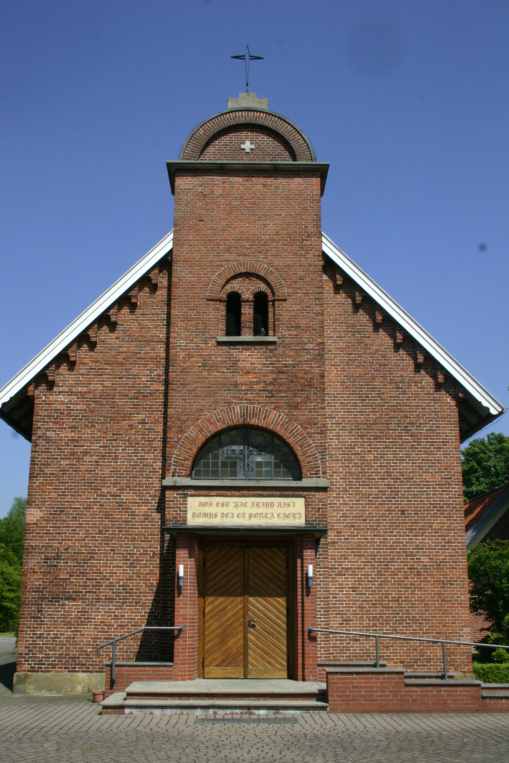 Historic church (cath.) in Weener, district of Leer, East Frisia, Germany